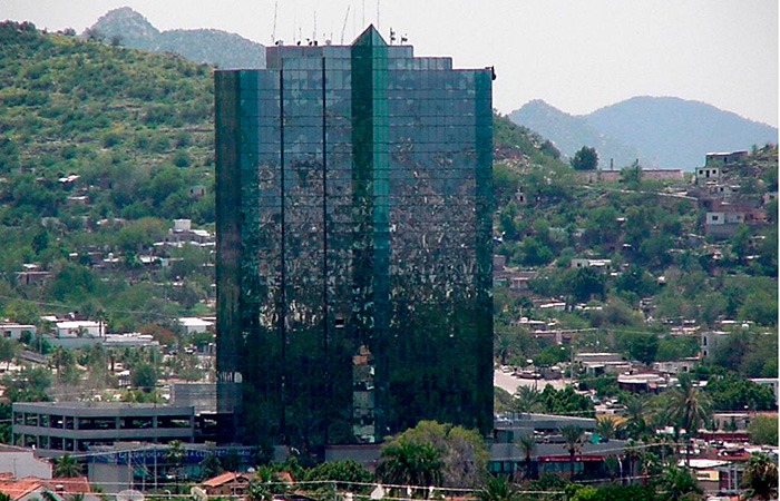 Hermosillo Towe